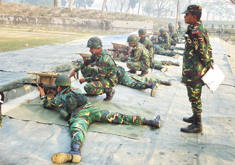 BD-08 Firing